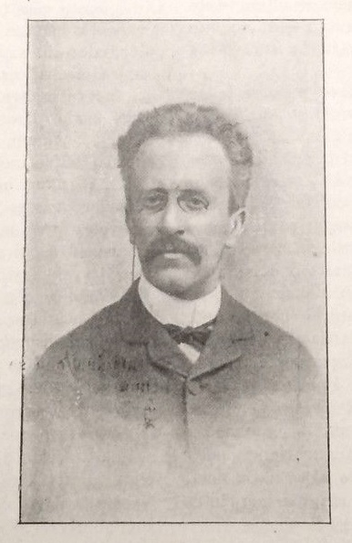 Giovanni De Castro